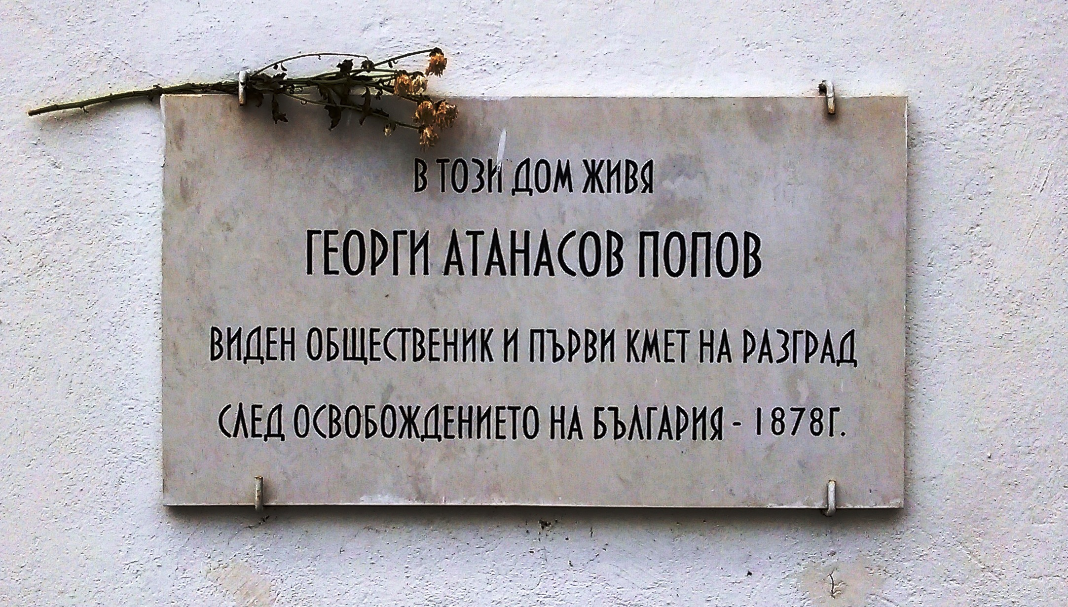 Memorial plate at the house of Georgi Popov, the first mayor of Razgrad